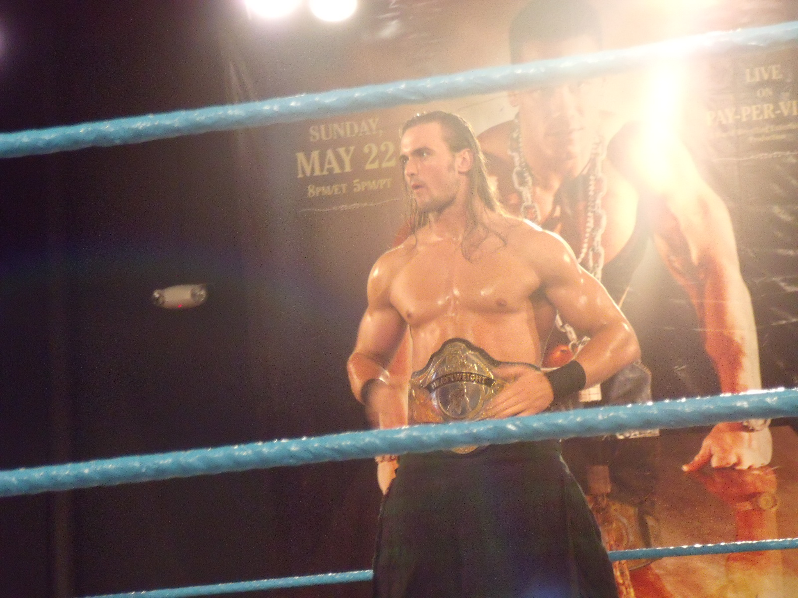 The Former FCW Heavyweight Champion.